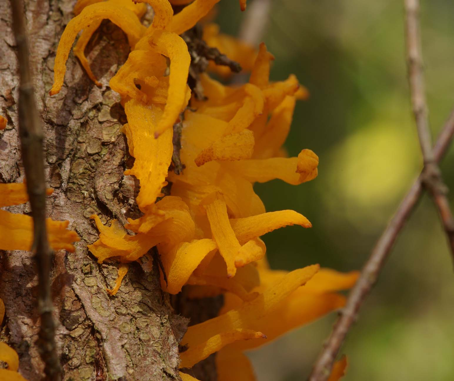 Macro view of Gymnosprangium telia emerging from Juniperus